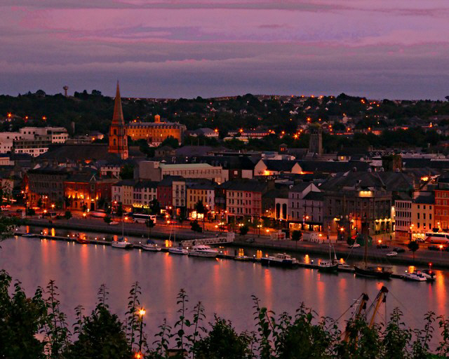 Waterford by night